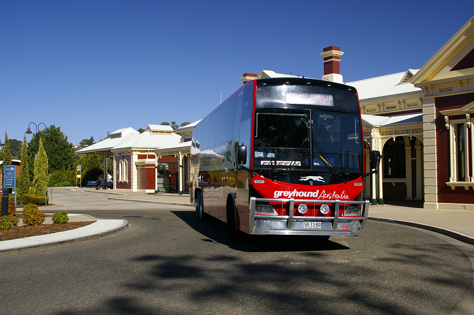 A Greyhound Australia, Mills-Tui Majestic Valere bodied Scania K380IB, at the Wagga Wagga Railway Station.